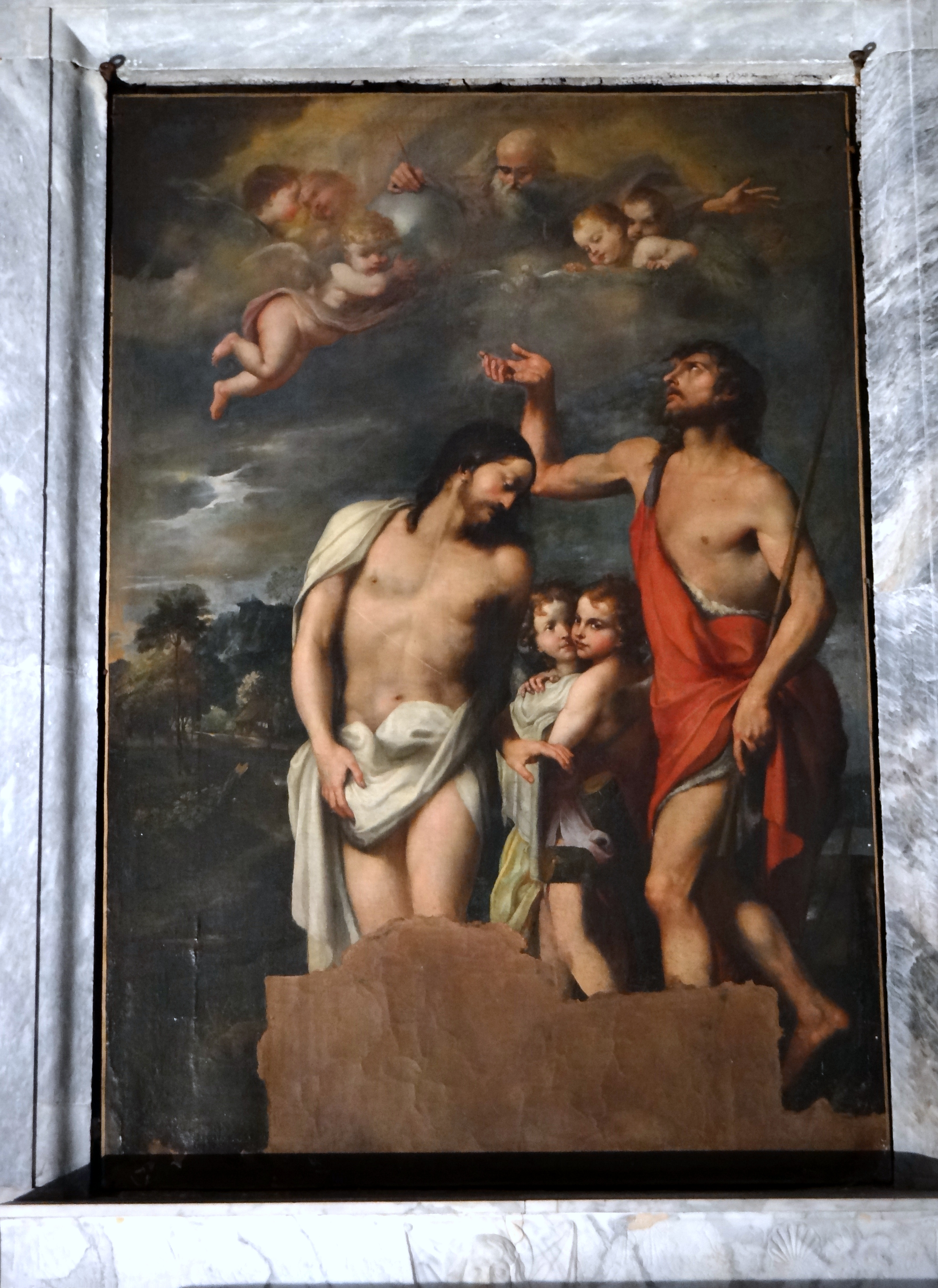 The Baptism of Christ by Pasquale Rossi in the Montemirabile Chapel, Santa Maria del Popolo